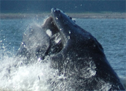 Humpback whale lunging through a herring school